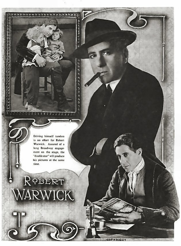 Actor Robert Warwick